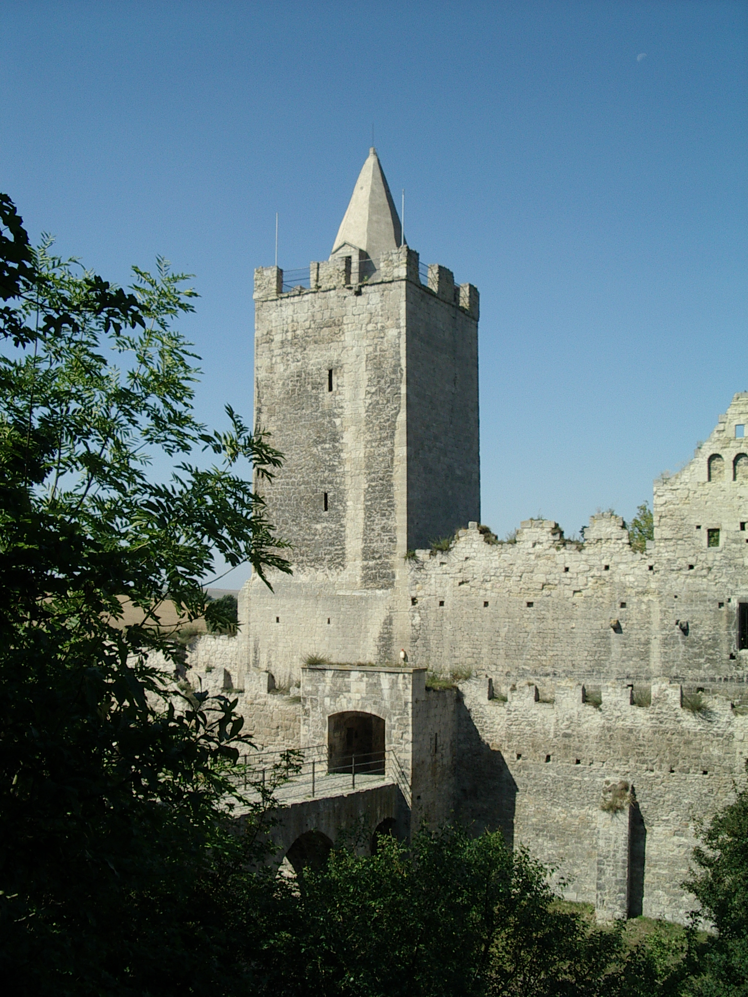 Rudelsburg: Castle ruin in the federal state of Saxony-Anhalt, (Germany) near Bad Kösen.